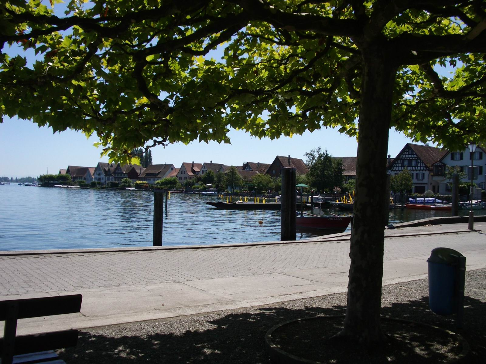 Ermatingen TG, Switzerland